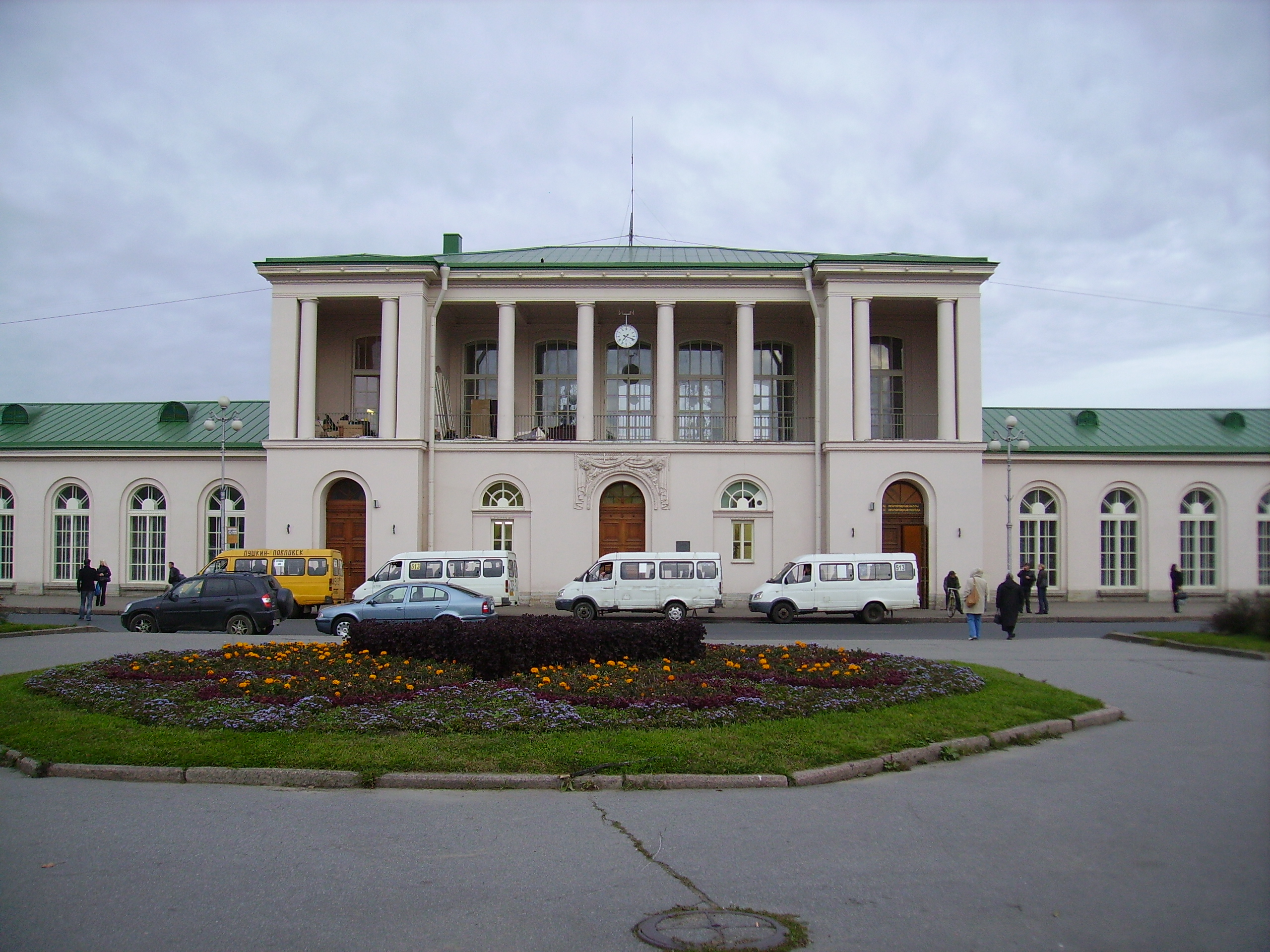 Detskoye Selo railway station (Pushkin, Saint Petersburg). Station building.